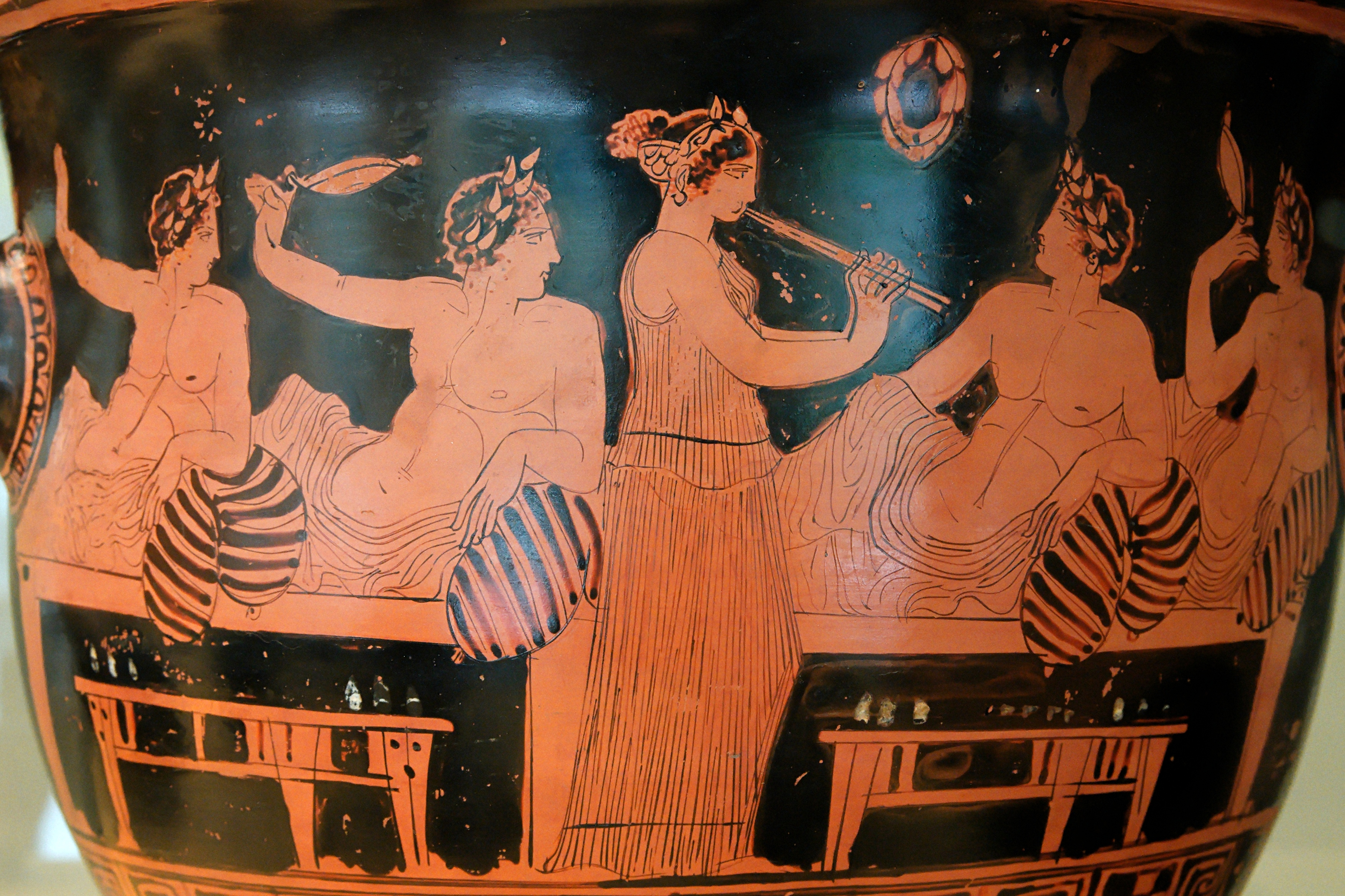 Symposium scene: banqueters playing the kottabos game while a girl plays the aulos. A wreath hanging on the wall. Laurel wreaths on the heads. Attic red-figure bell-krater.